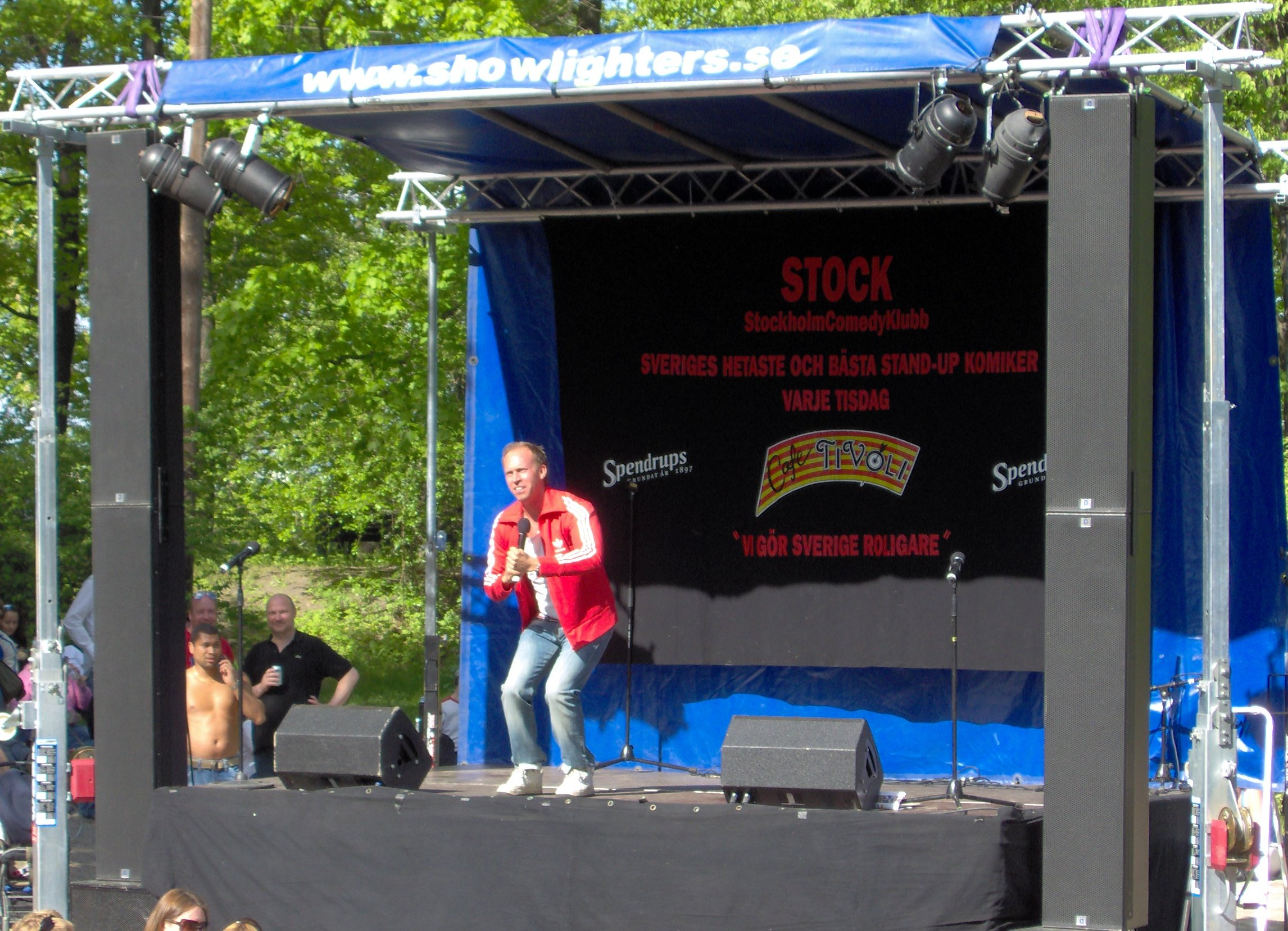 Swedish comedian Jakob Öqvist at the Skrattstock comedy festival in Stockholm on June 3rd 2006.